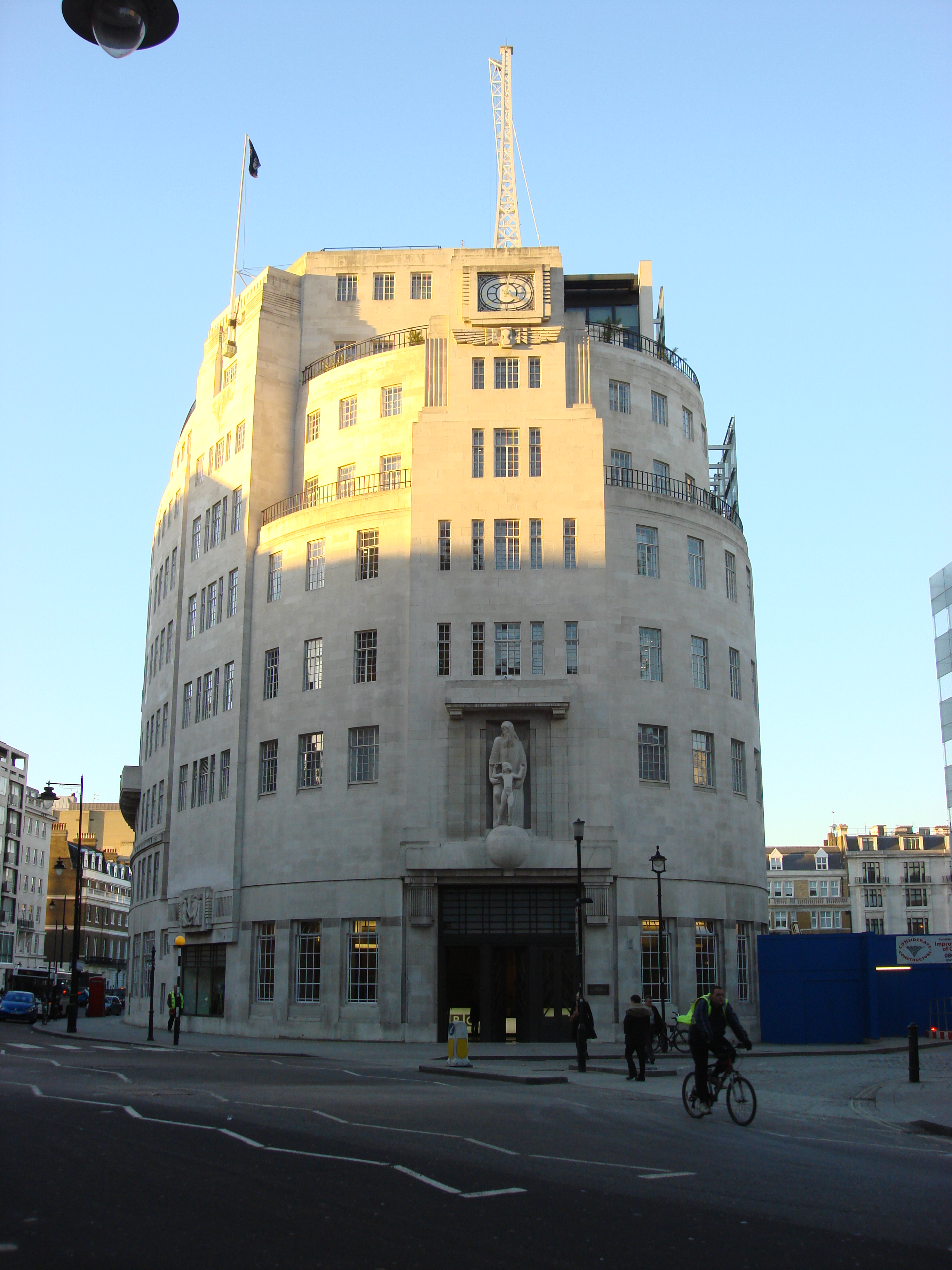 Broadcasting House is the headquarters and registered office of the BBC in Portland Place, London, England, UK. It is home to BBC Radio 3, BBC Radio 4, and BBC 7. At the front of the building are statues of Prospero and Ariel (from Shakespeare's The Tempest) by Eric Gill.